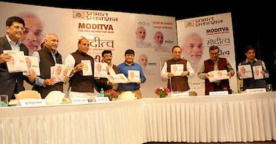 The book ‘Moditva – the Idea behind the Man’ launched by Shri Rajnath Singh